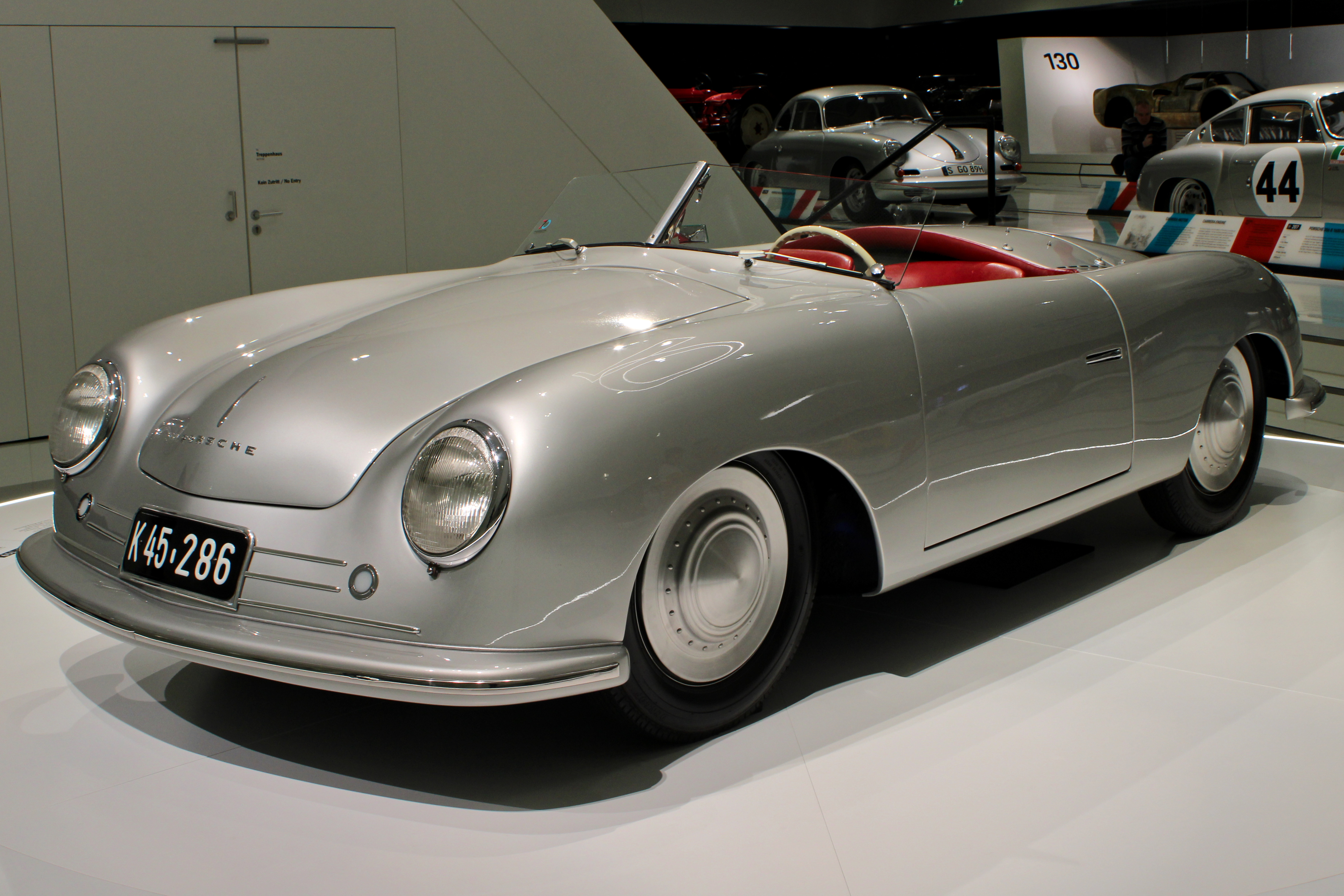 Porsche 356 No. 1 Roadster at Porsche Museum 2018